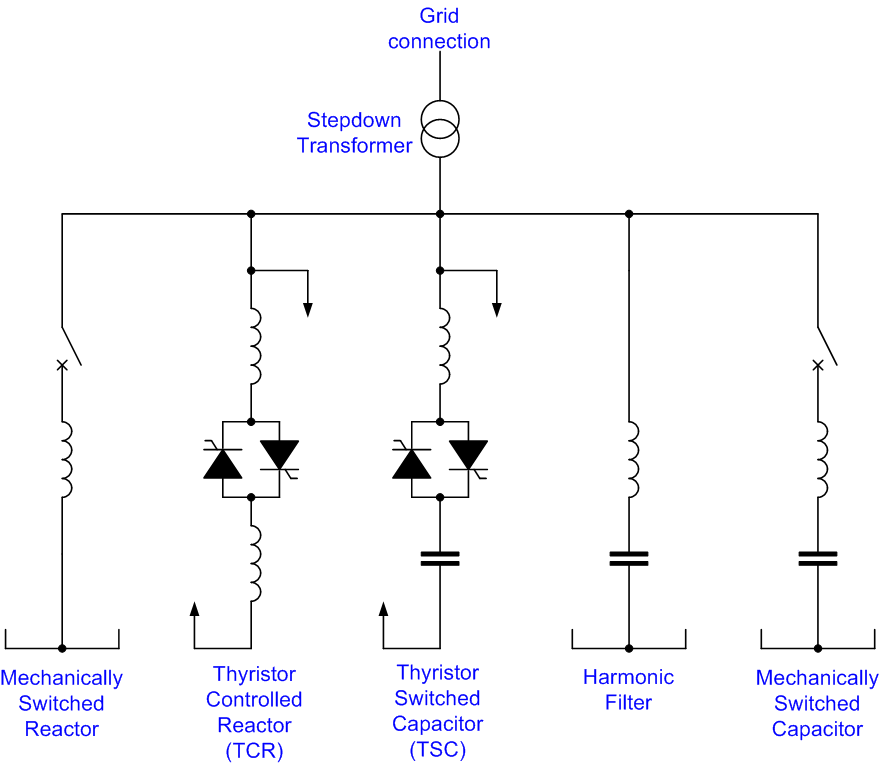 Single line diagram of a typical transmission SVC containing a TCR, TSC, harmonic filter, mechanically switched reactor and mechanically switched reactor